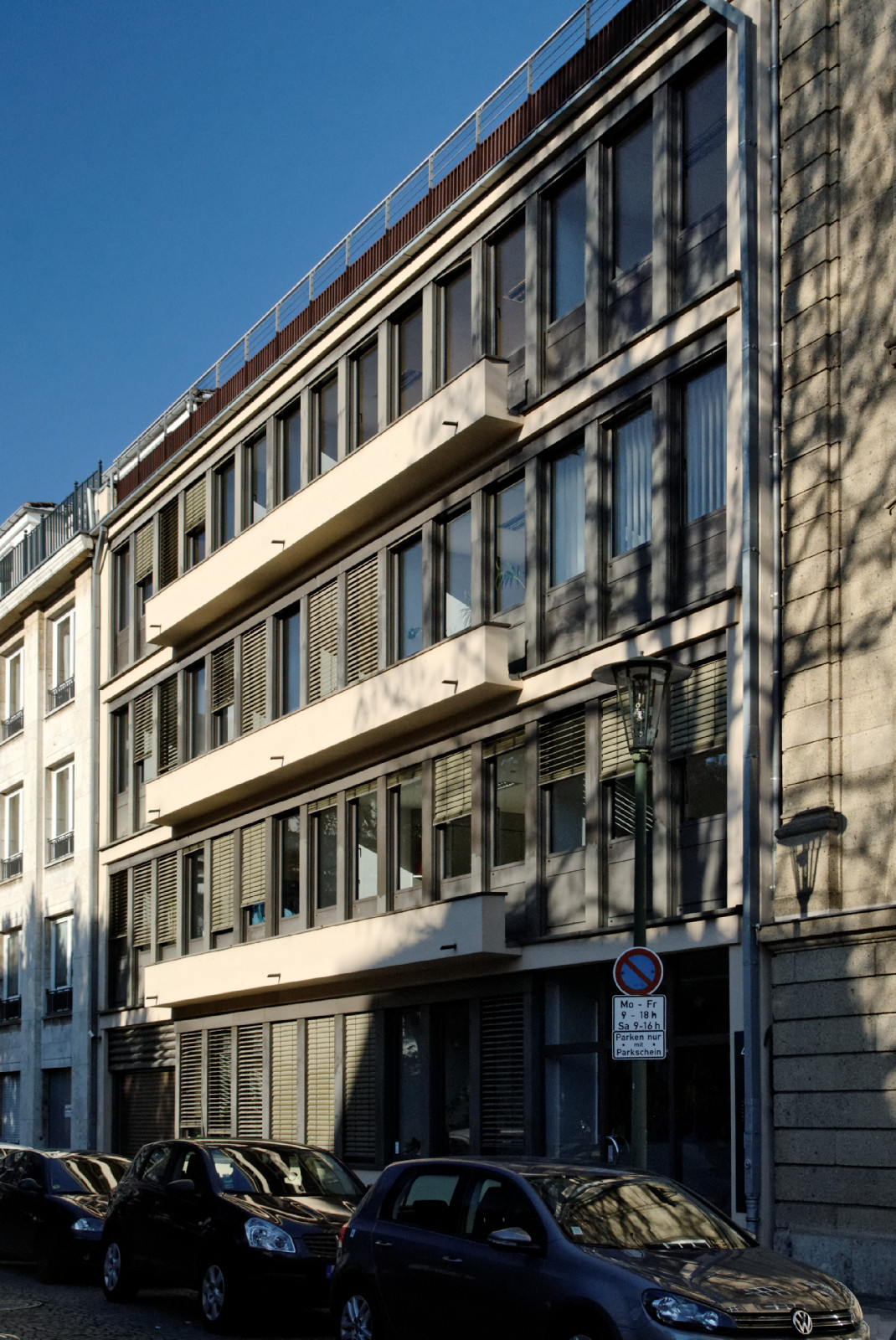 House Couvenstraße 4 in Düsseldorf-Pempelfort, Germany